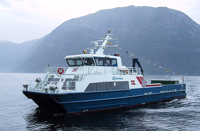 MS Sylvarnes enroute at Sognefjorden.